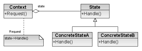 The State design pattern UML diagram